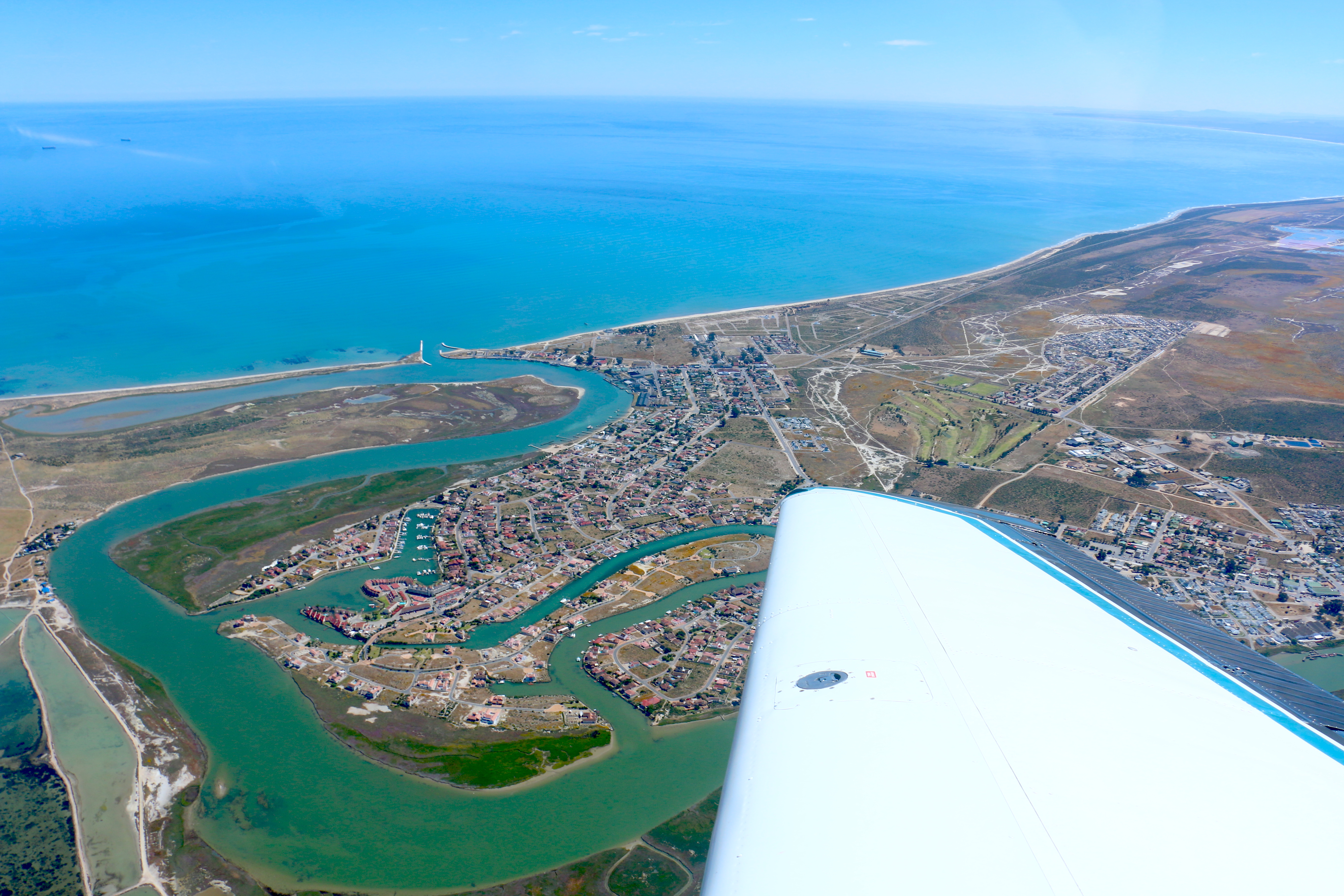 Bird's eye view of Velddirf (Picture October 2016)